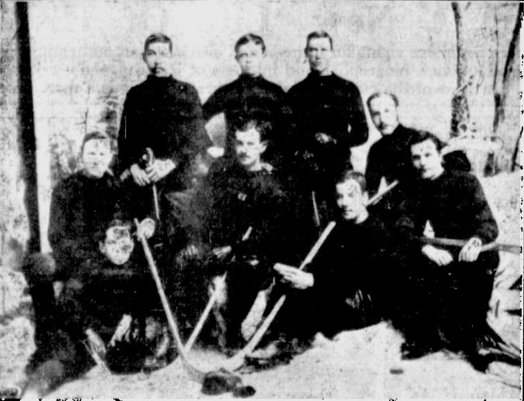 Studio picture of Ottawa Hockey Club. Back row: T.D. Green, T.L. Gallagher, Nelson Porter. Middle row: H.Kirby, J. Kerr, FMS Jenkins. Bottom Row: G. Young, A.P. Low, E.L. Taylor.